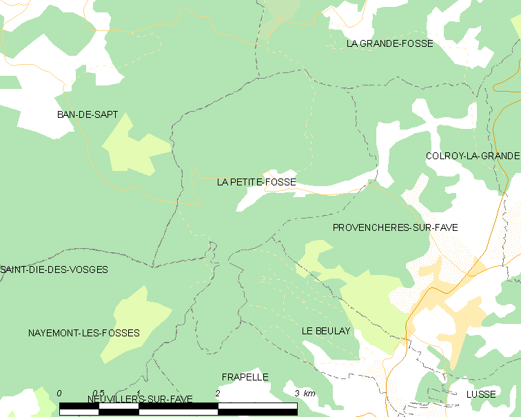 Map of French municipality La Petite-Fosse